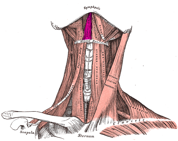 Image:386.png